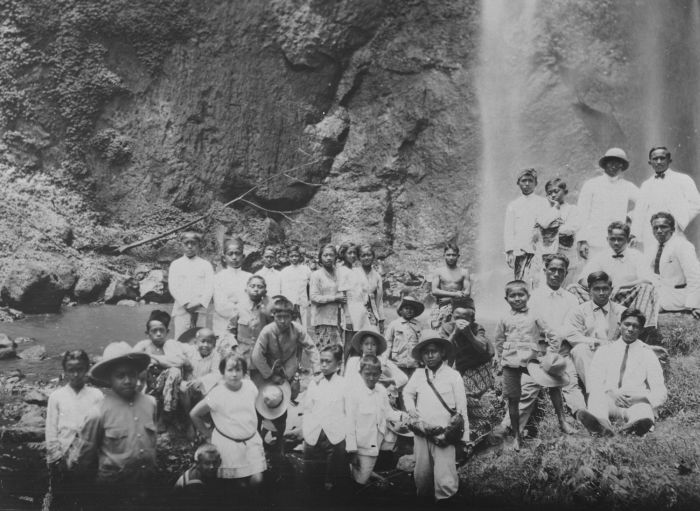 Group portrait with schoolchildren of an 'Hollands-Inlandse School (HIS)' together with students of the 'Hogere Kweekschool (HKS)' at Bandung, in front of the waterfall near Cisarua and Cimahi